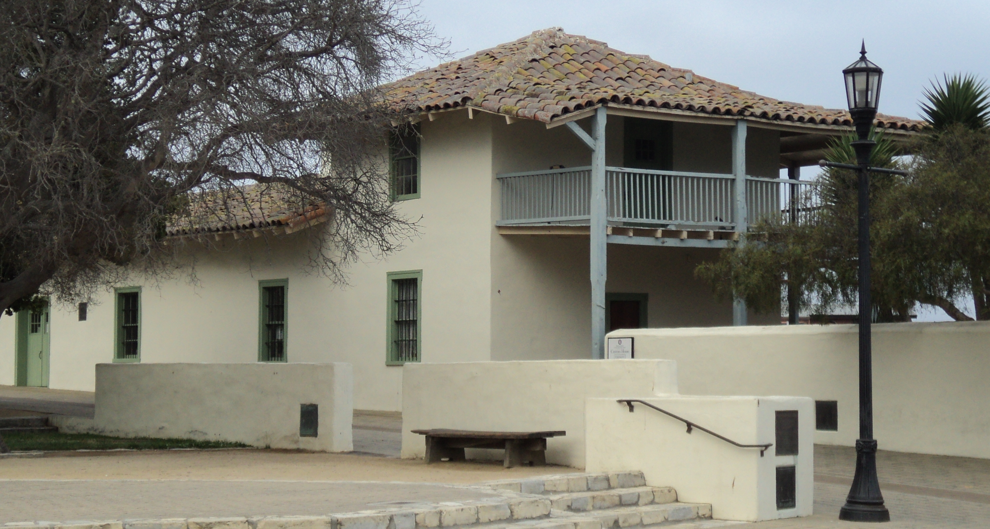 U.S. Customhouse